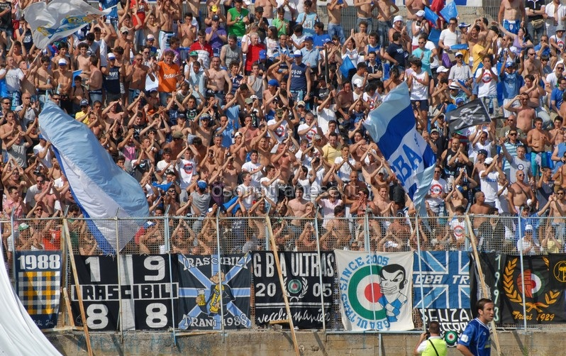 trani's supporters